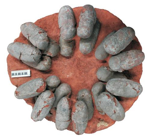 Fossilized nest of oviraptorosaurid eggs. Specimen is held in the Paleowonders Fossil and Mineral Museum, Taiwan (catalogue number 0010403018).